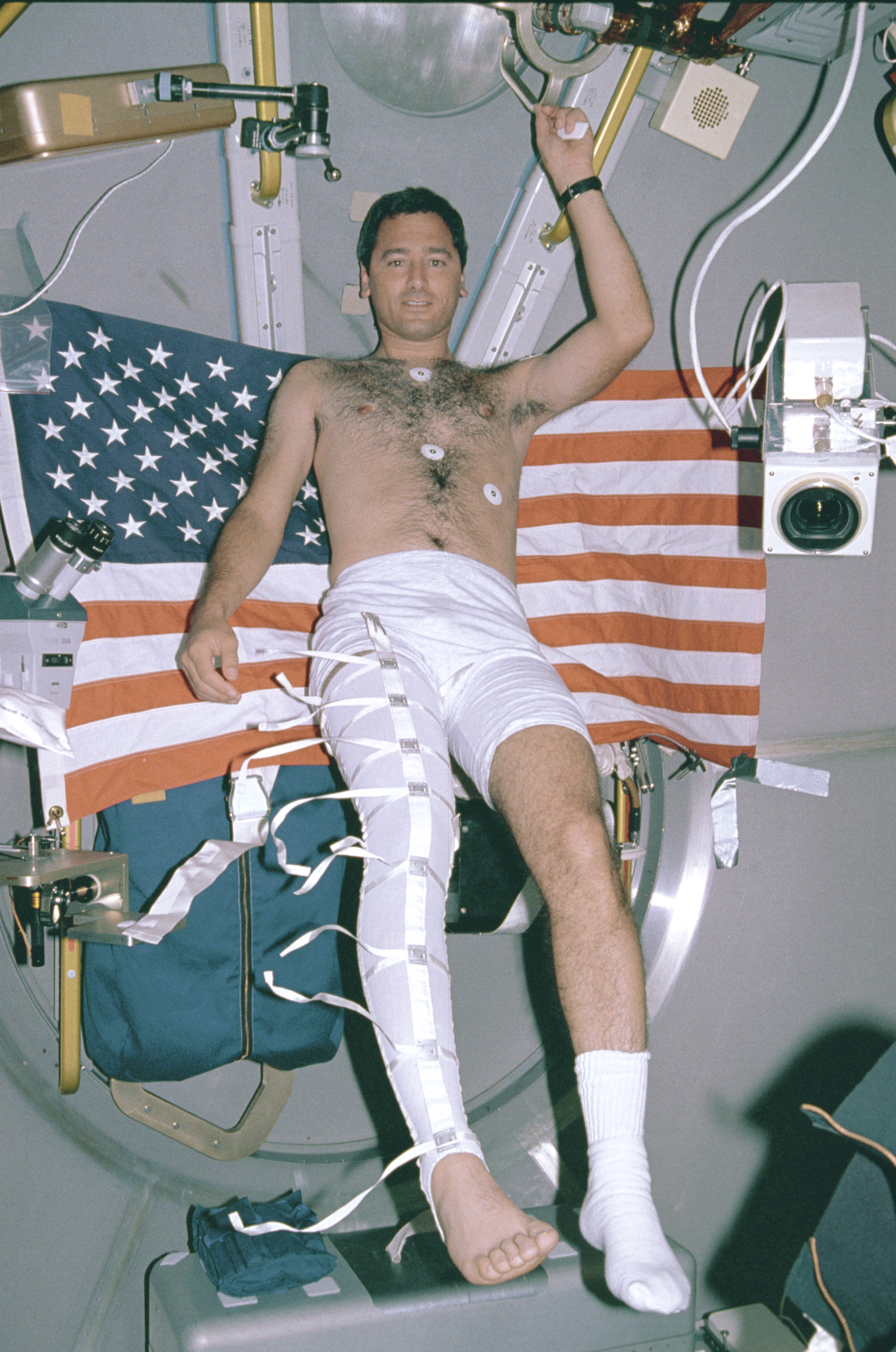 The first United States Microgravity Laboratory (USML-1) flew in orbit inside the Spacelab science module for extended periods, providing scientists and researchers greater opportunities for research in materials science, fluid dynamics, biotechnology (crystal growth), and combustion science. This photograph shows Astronaut Larry DeLucas wearing a stocking plethysmograph during the mission. Muscle size in the legs changes with exposure to microgravity. A stocking plethysmograph, a device for measuring the volume of a limb, was used to help determine these changes. Several times over the course of the mission, an astronaut will put on the plethysmograph, pull the tapes tight and mark them. By comparing the marks, changes in muscle volume can be measured. The USML-1 was launched aboard the Space Shuttle Orbiter Columbia (STS-50) on June 25, 1992.